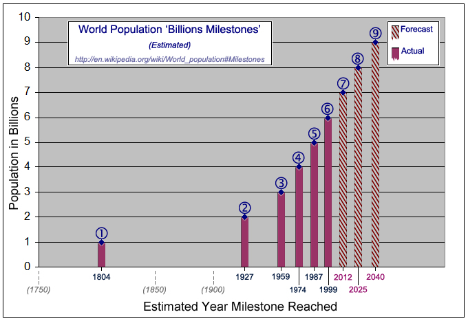 Chart showing estimated years at which each Population Billion Milestone either was, or is forecast to be, achieved.